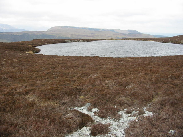 Llyn y Frithgraig Was it worth the struggle through the heather to reach this isolated pool?.